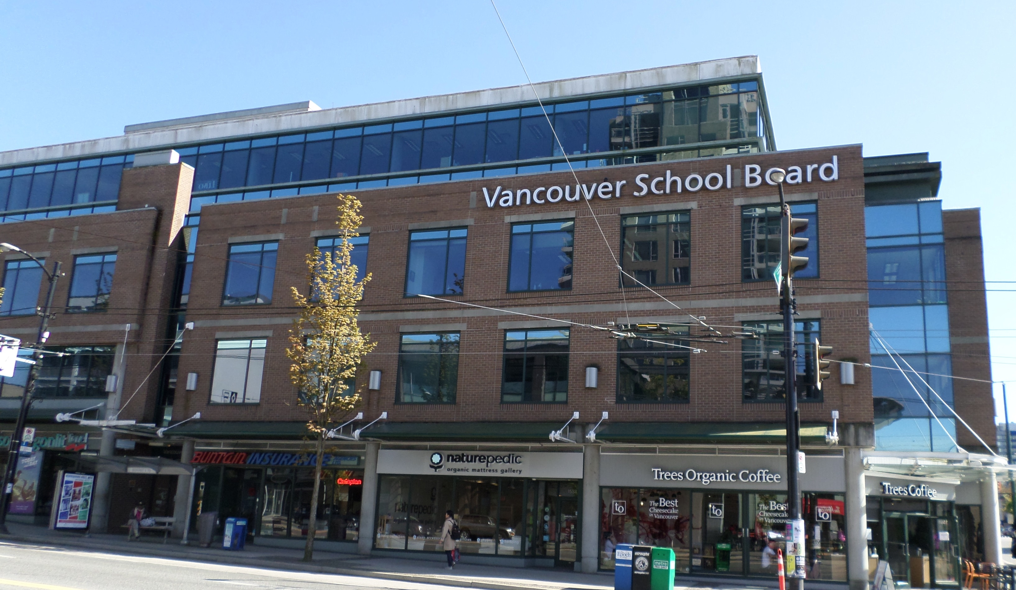 The Vancouver School Board headquarters, located at 1580 W Broadway, Vancouver, BC, Canada.